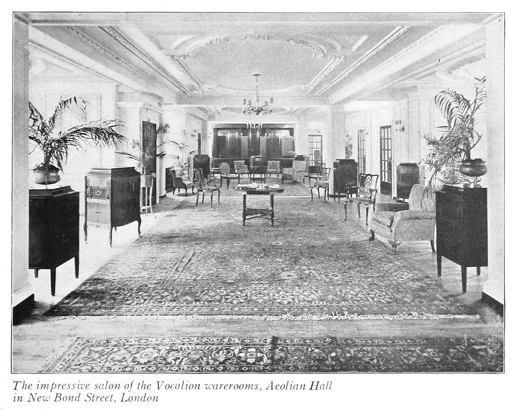 “The impressive salon of the Vocalion warerooms, Aeolian Hall in New Bond Street, London”